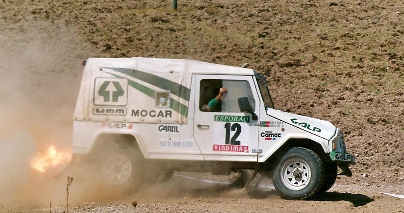 UMM Alter v6 prv